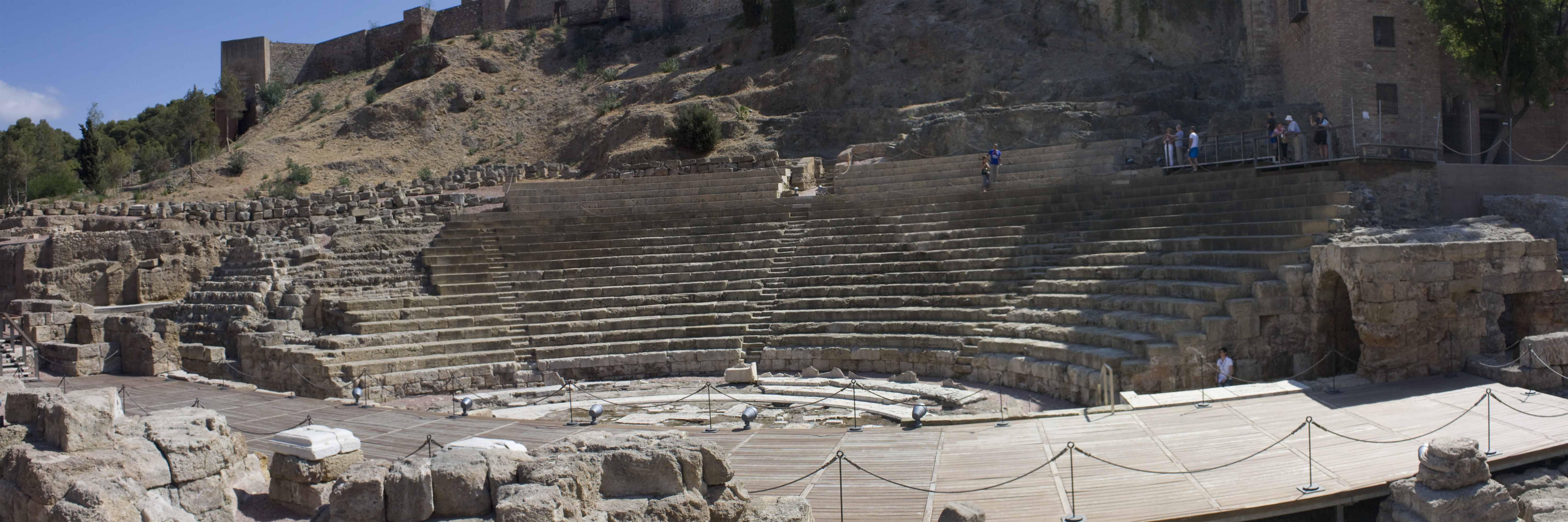 Roman theatre, Malaga, Espagne.